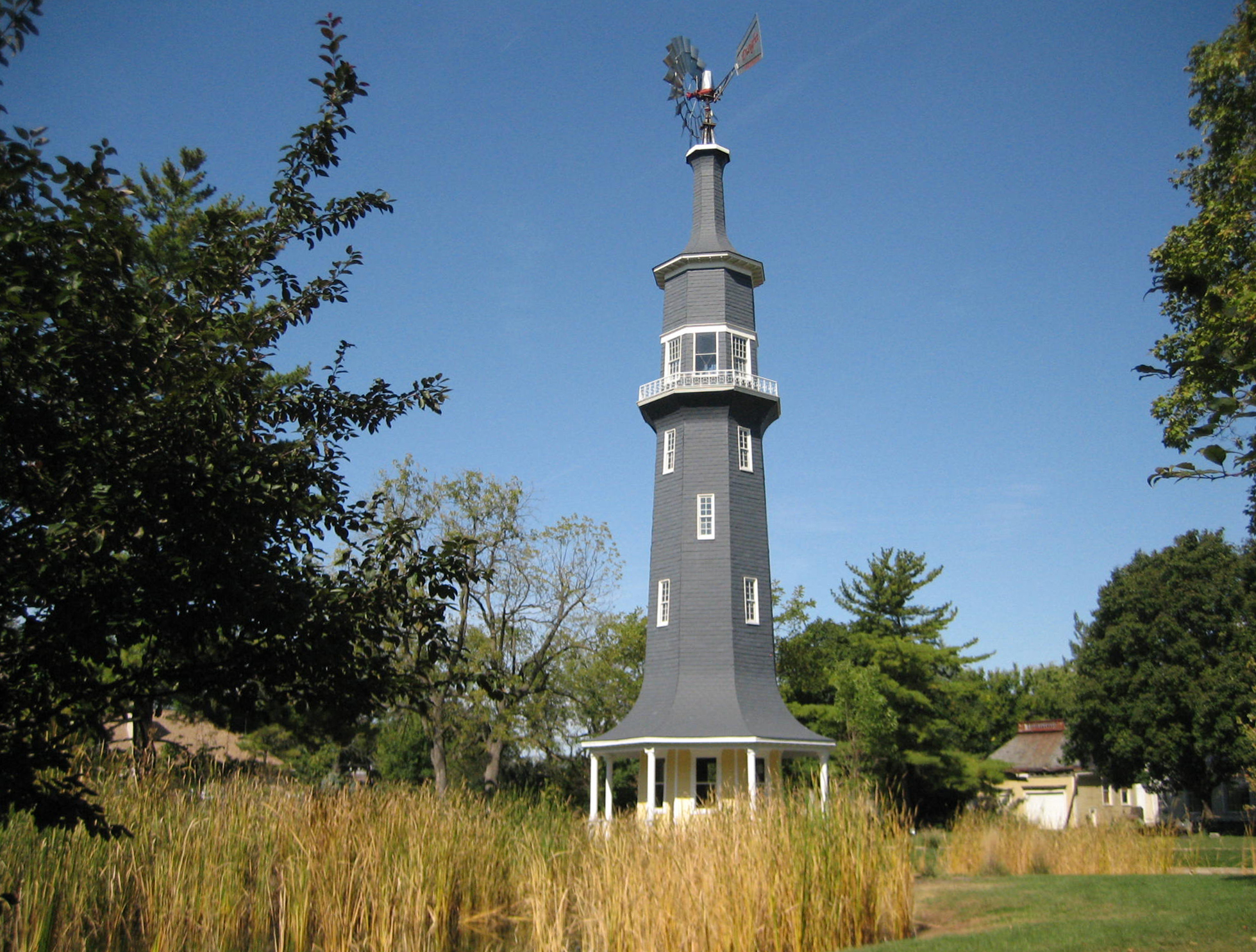 John R. Oughton House, Dwight, Illinois, USA. U.S. National Register of Historic Places. Windmill.